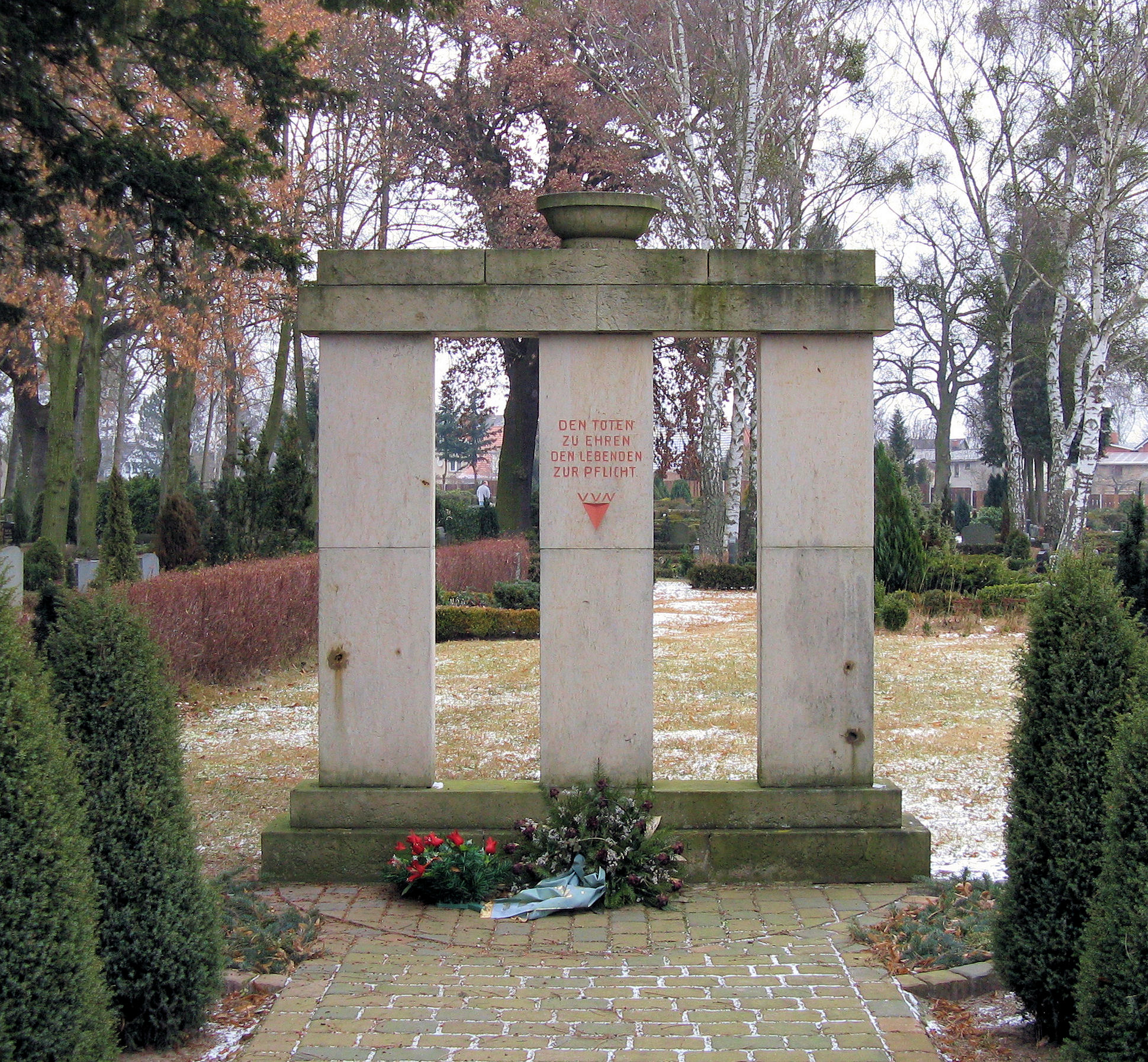 1947 built memorial for the victims of fascism in Neustadt-Glewe, district Ludwigslust-Parchim, Mecklenburg-Vorpommern, Germany